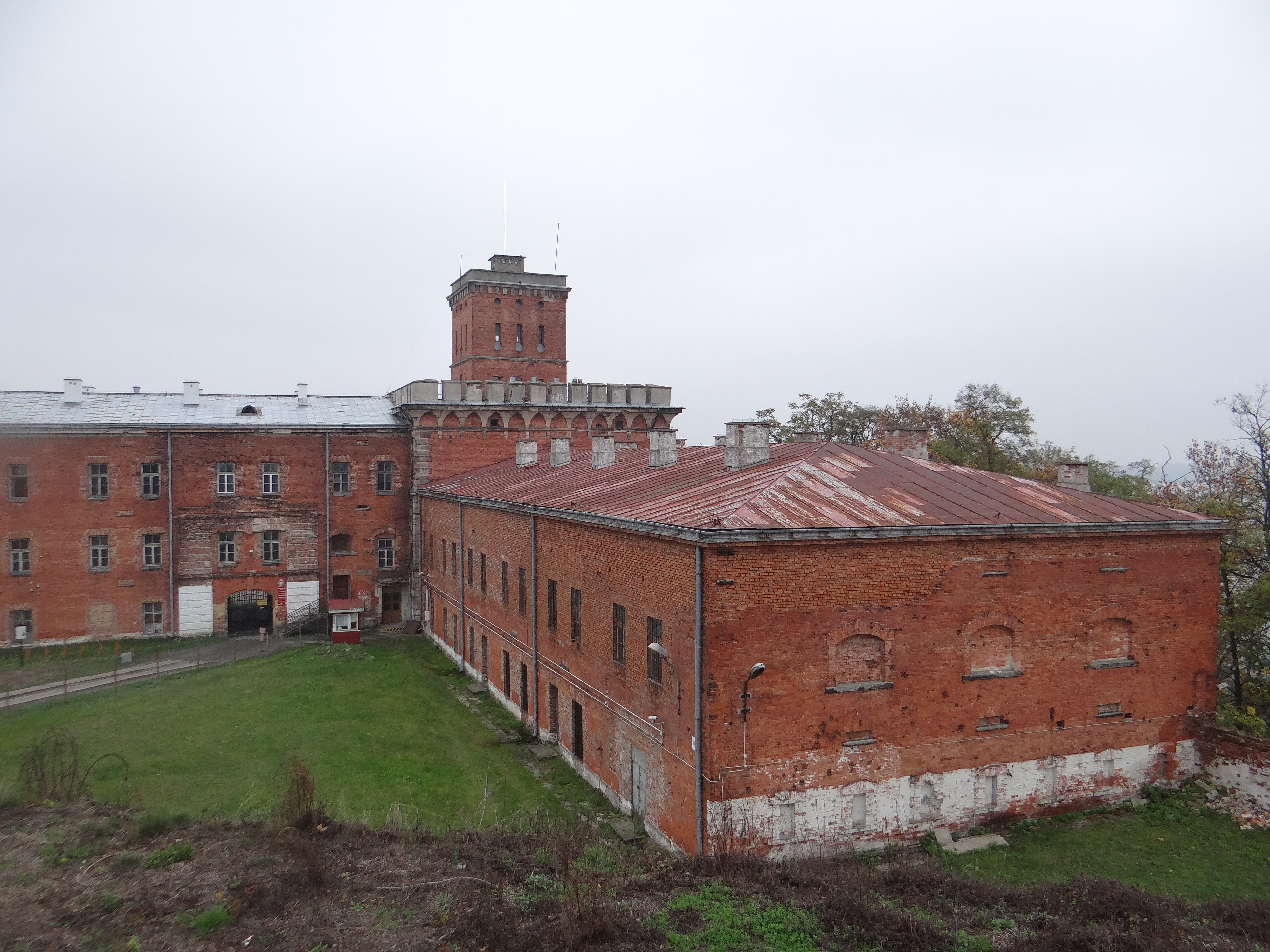 The Tatar Tower also known as The Red Tower in Modlin